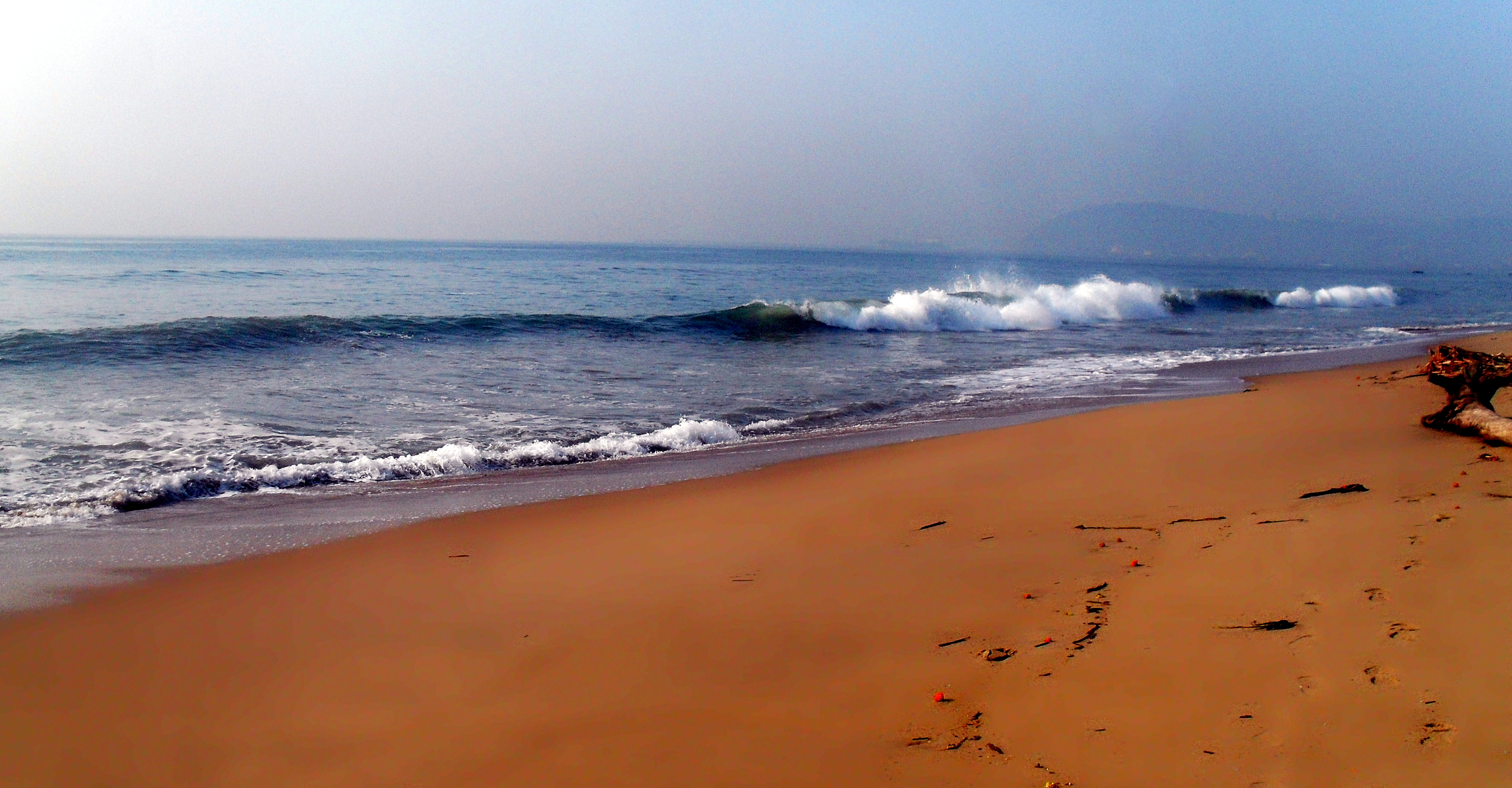 A view of R.K. Beach in Visakhapatnam, Andhra Pradesh, India.